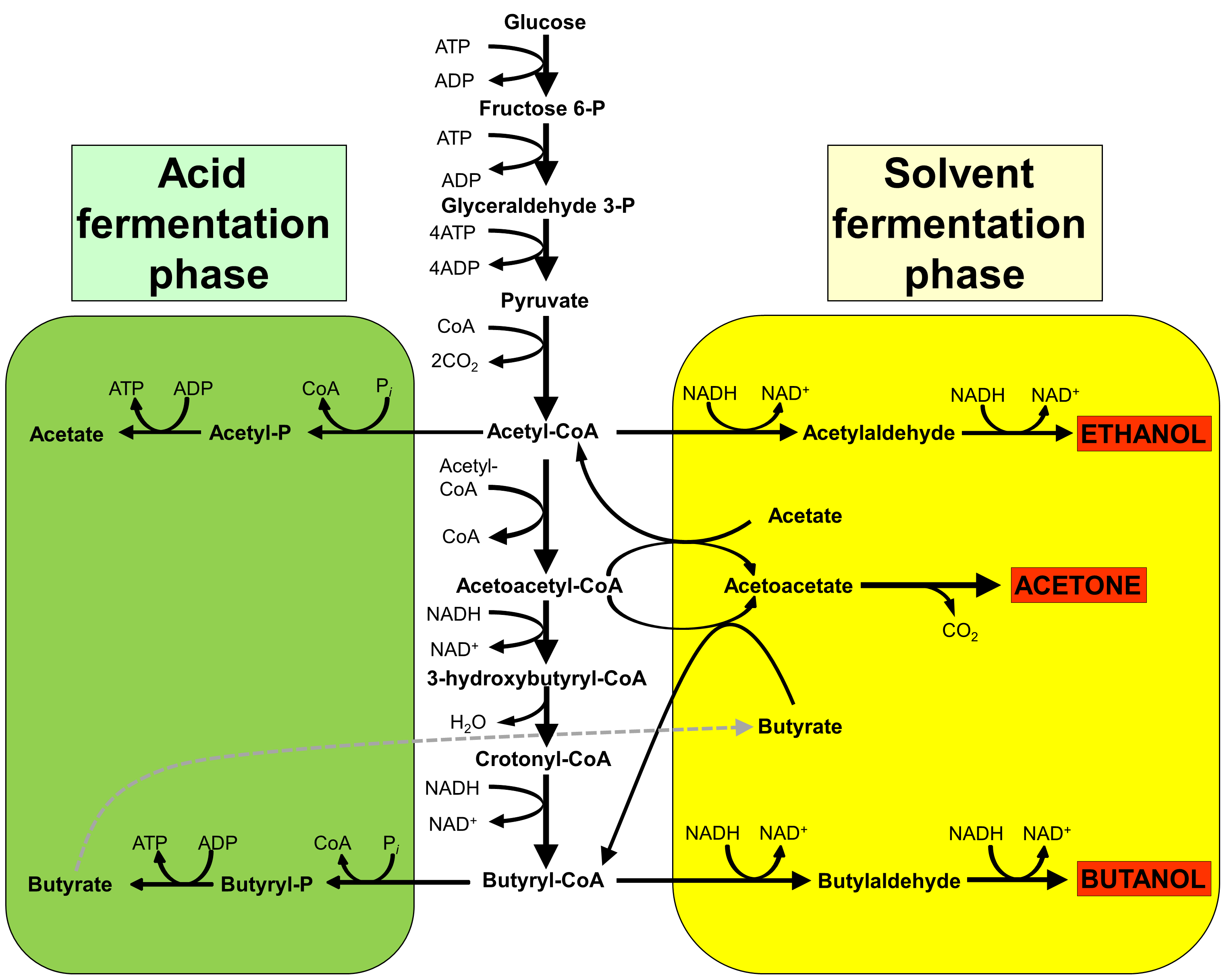 This figure shows acetone–butanol–ethanol (ABE) fermentation by clostridia.